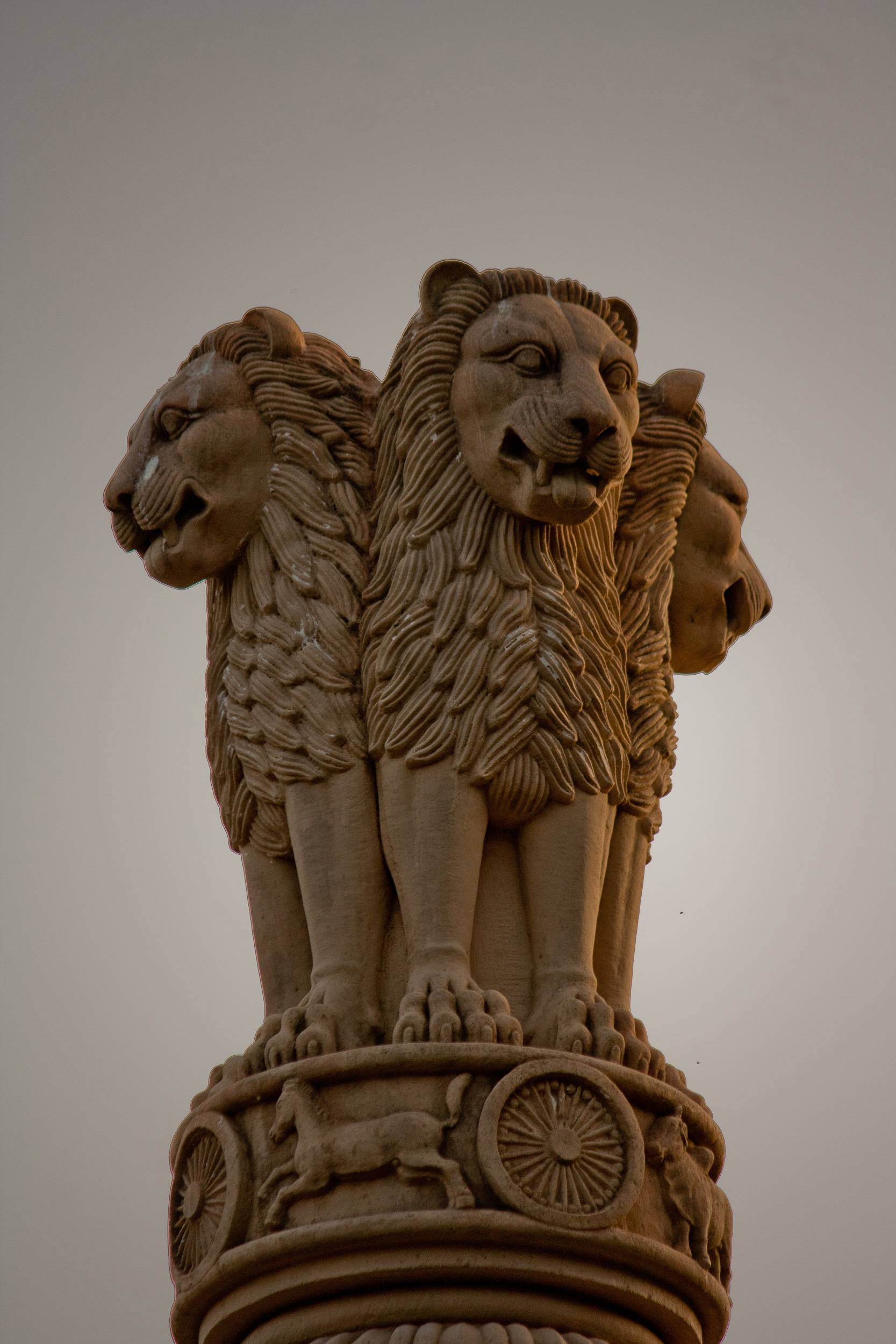 If you use this photo anywhere - plz credit . Thanks!